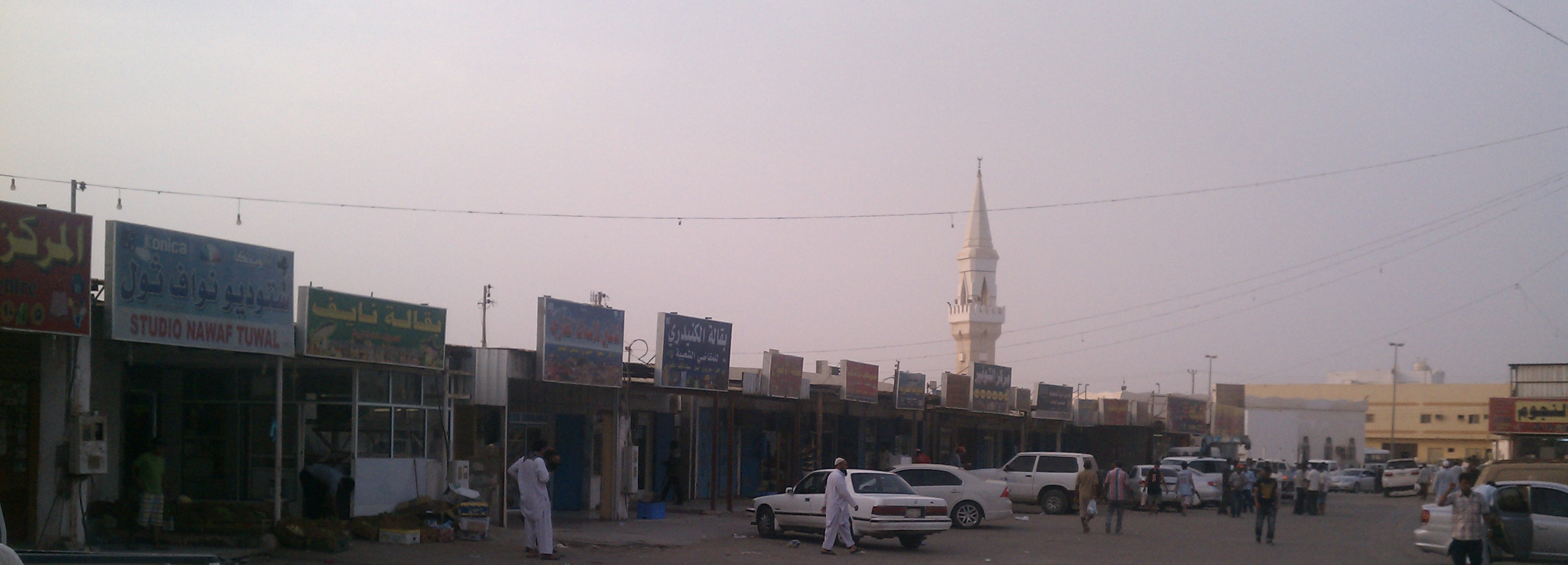 Shops of Thuwal on an August evening